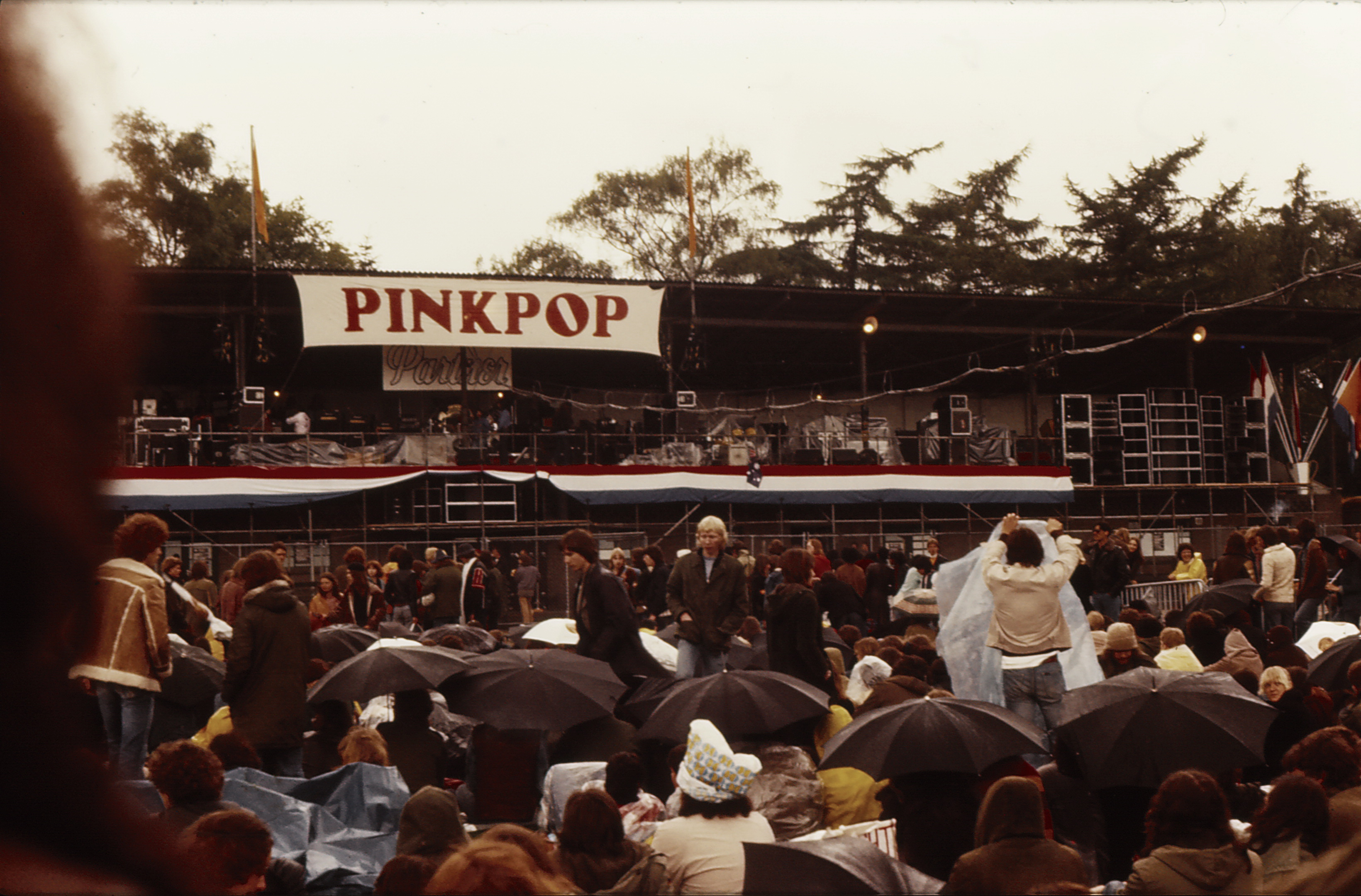 pinkpop 1978